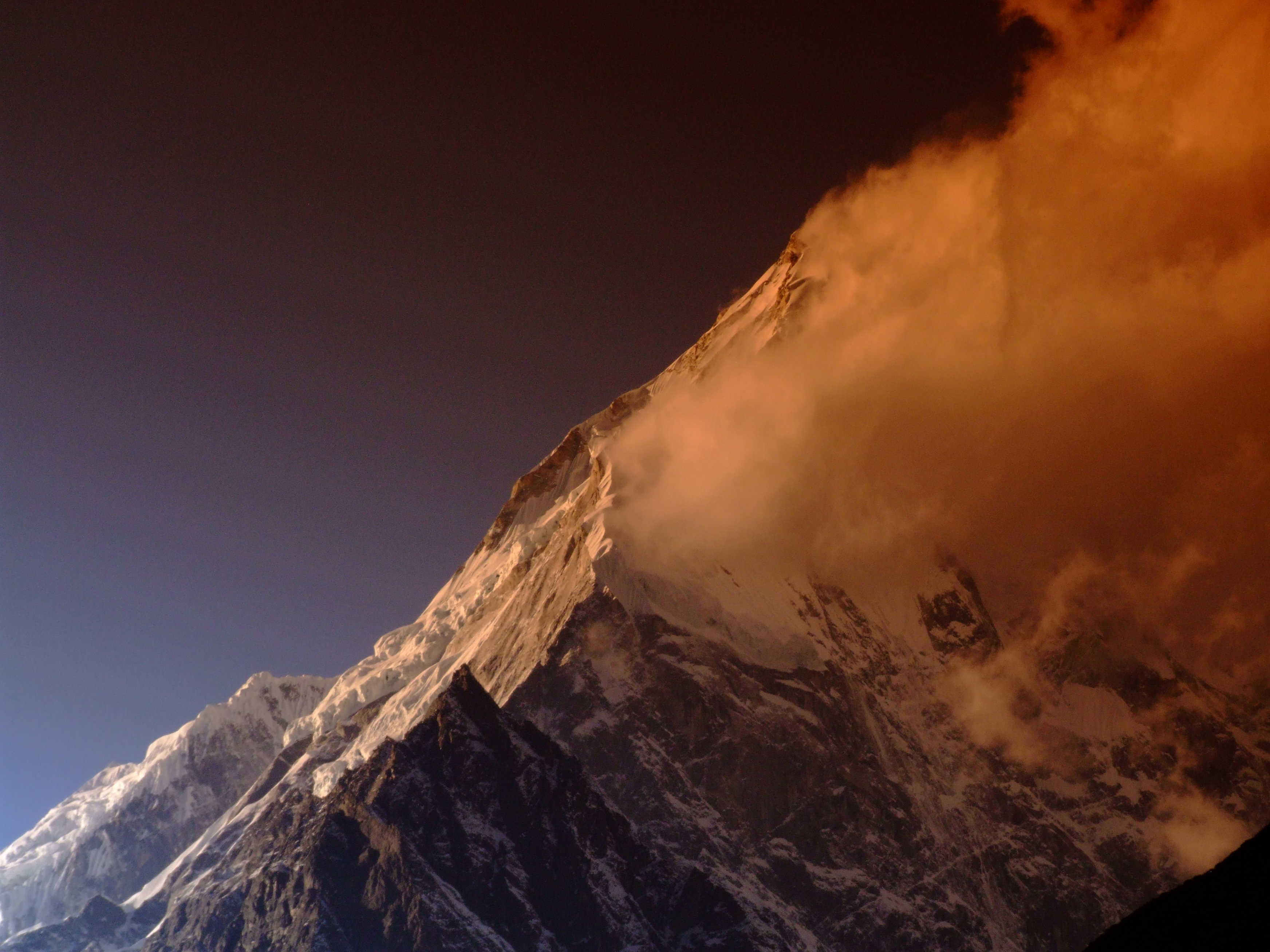 A photo of Langtang Lirung